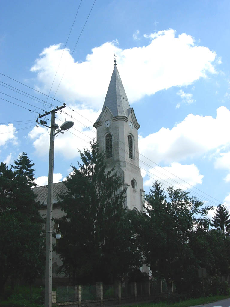 Saint Stephen the King Catholic Church in Sajan.